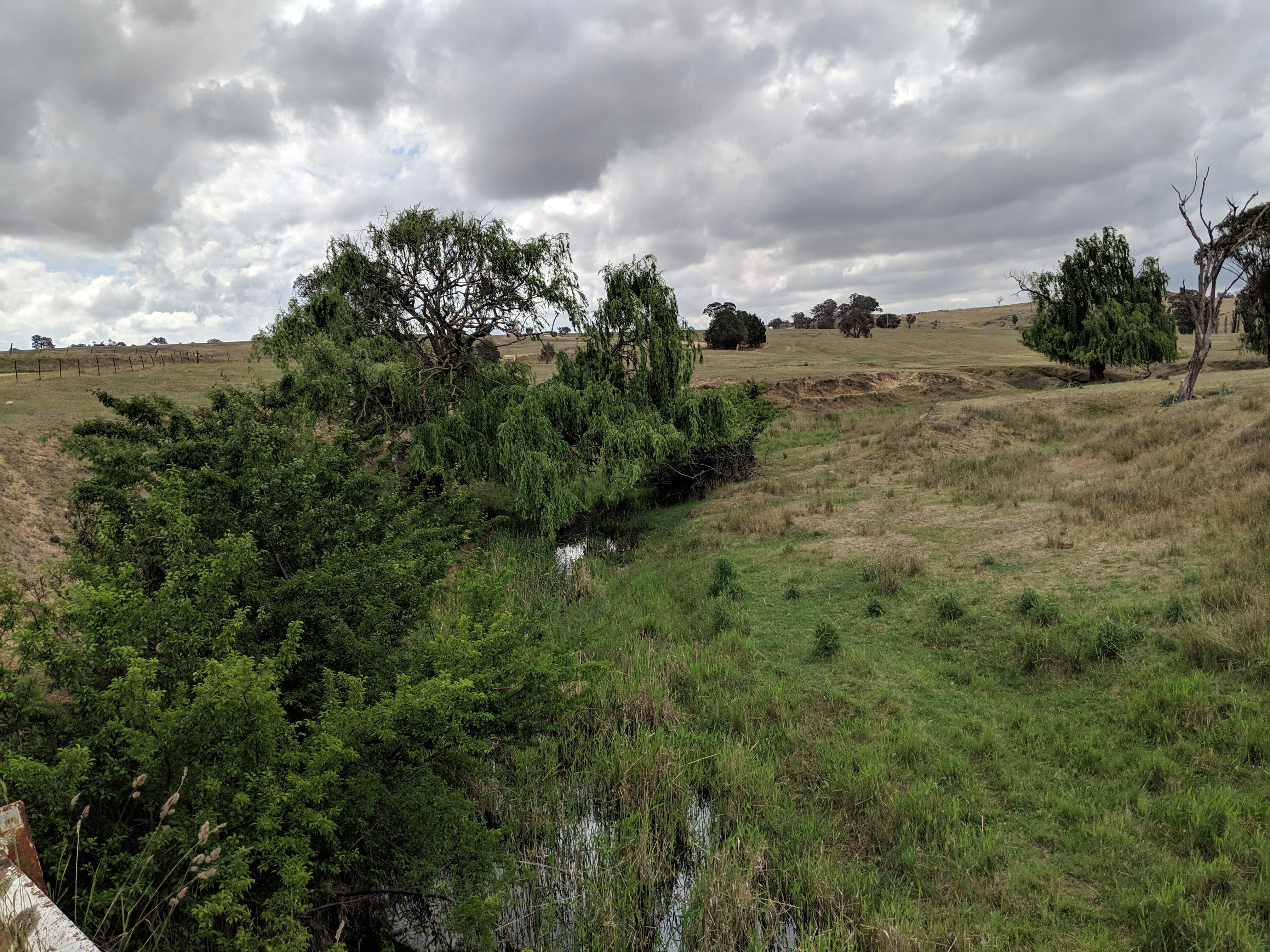 Merrill at Merrill Creek looking east